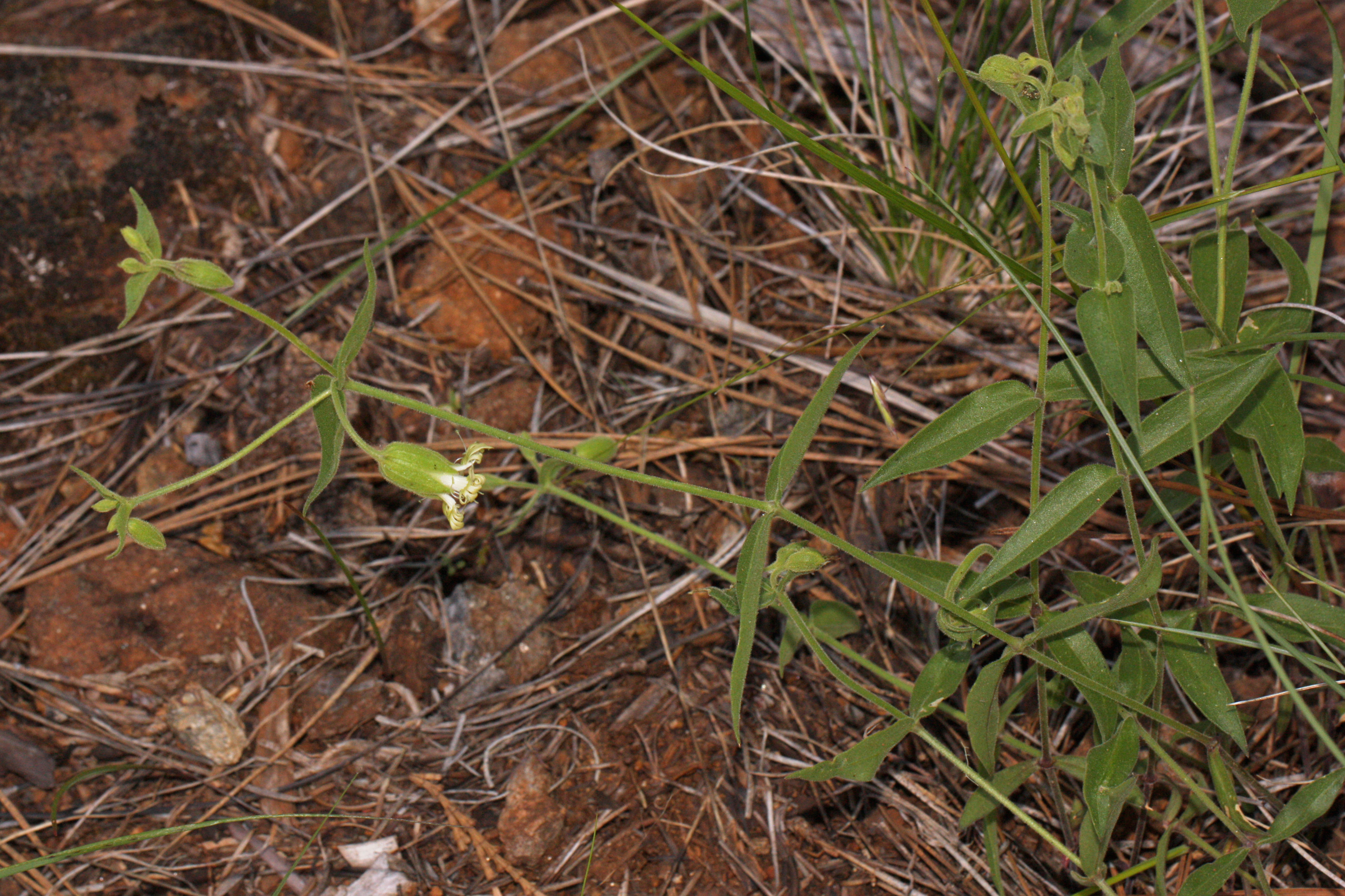 Bell Catchfly Viewpoint location: Little Falls Trail, T. J. Howell Botanical Drive Viewpoint elevation: 406 meter (1331 ft) Location source: Garmin GPSmap 60CSx Location Datum: WGS84